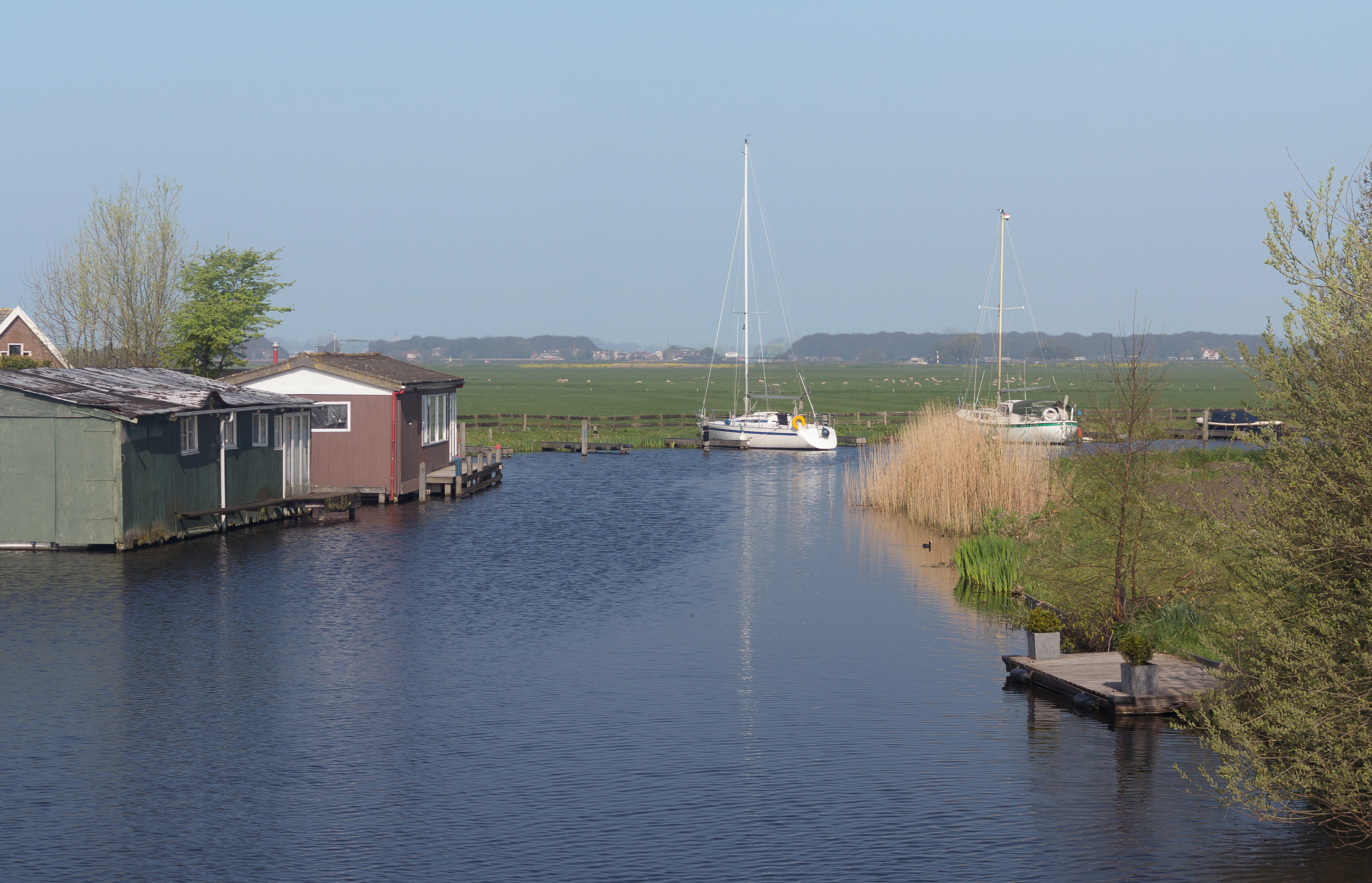 between Oud Ade and Warmond, polder panorama